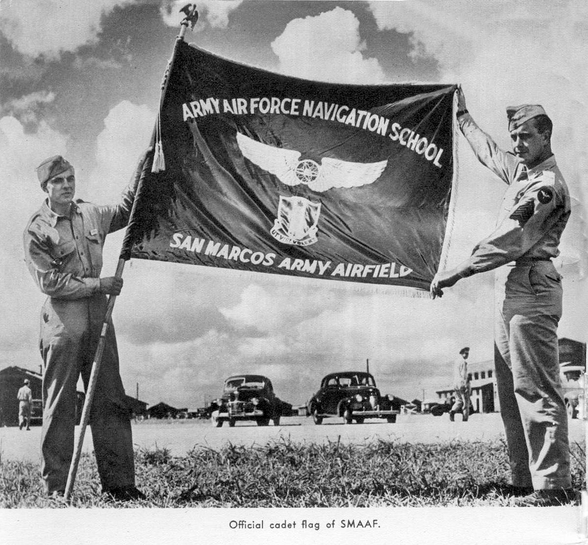 San Marcos AAF official flagl